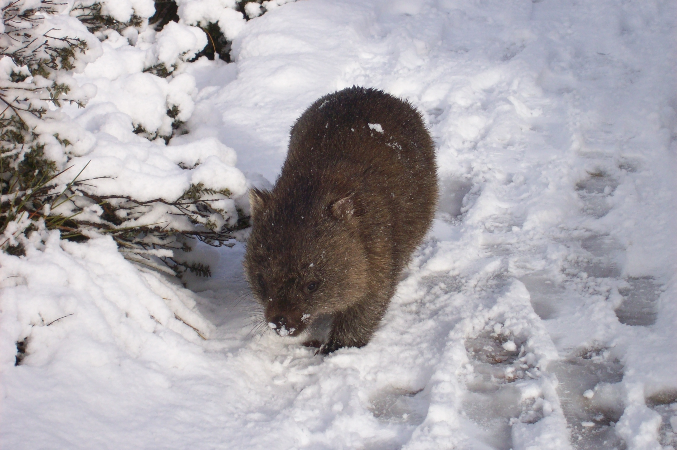 Wombat walking in snow in Cludle Moutain